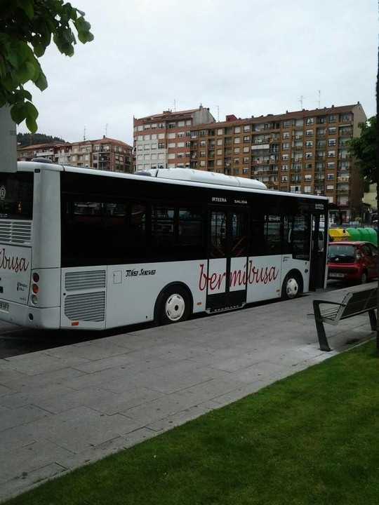 Bermibus, the urban bus of Bermeo.